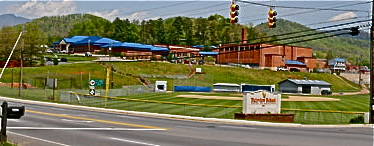 Smoky Mountain High School as it looks today, after renovations in 2004-2006.